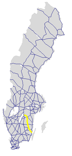 Riksväg 34, Sweden